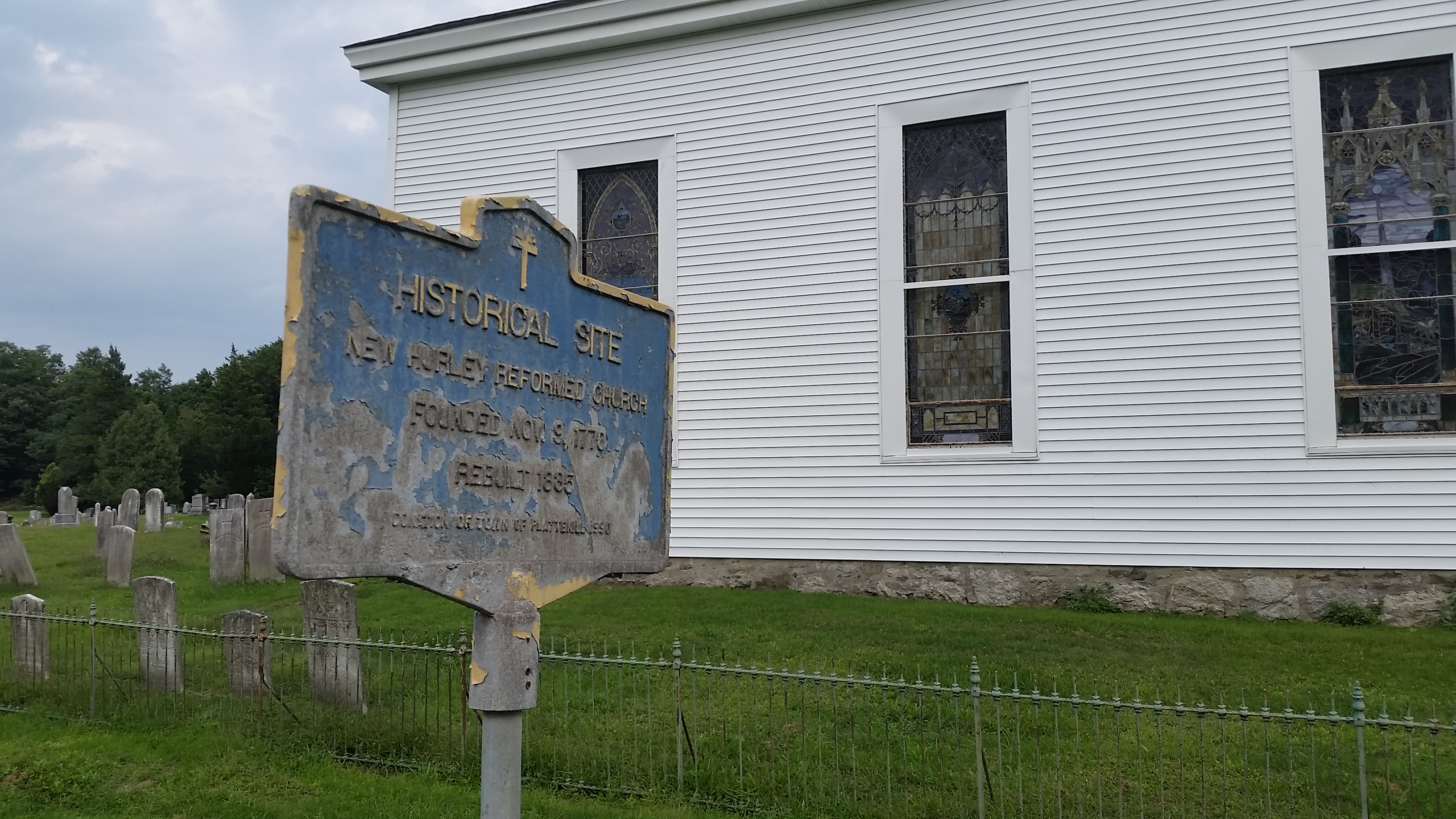 New York State historic marker for the New Hurley Reformed Church